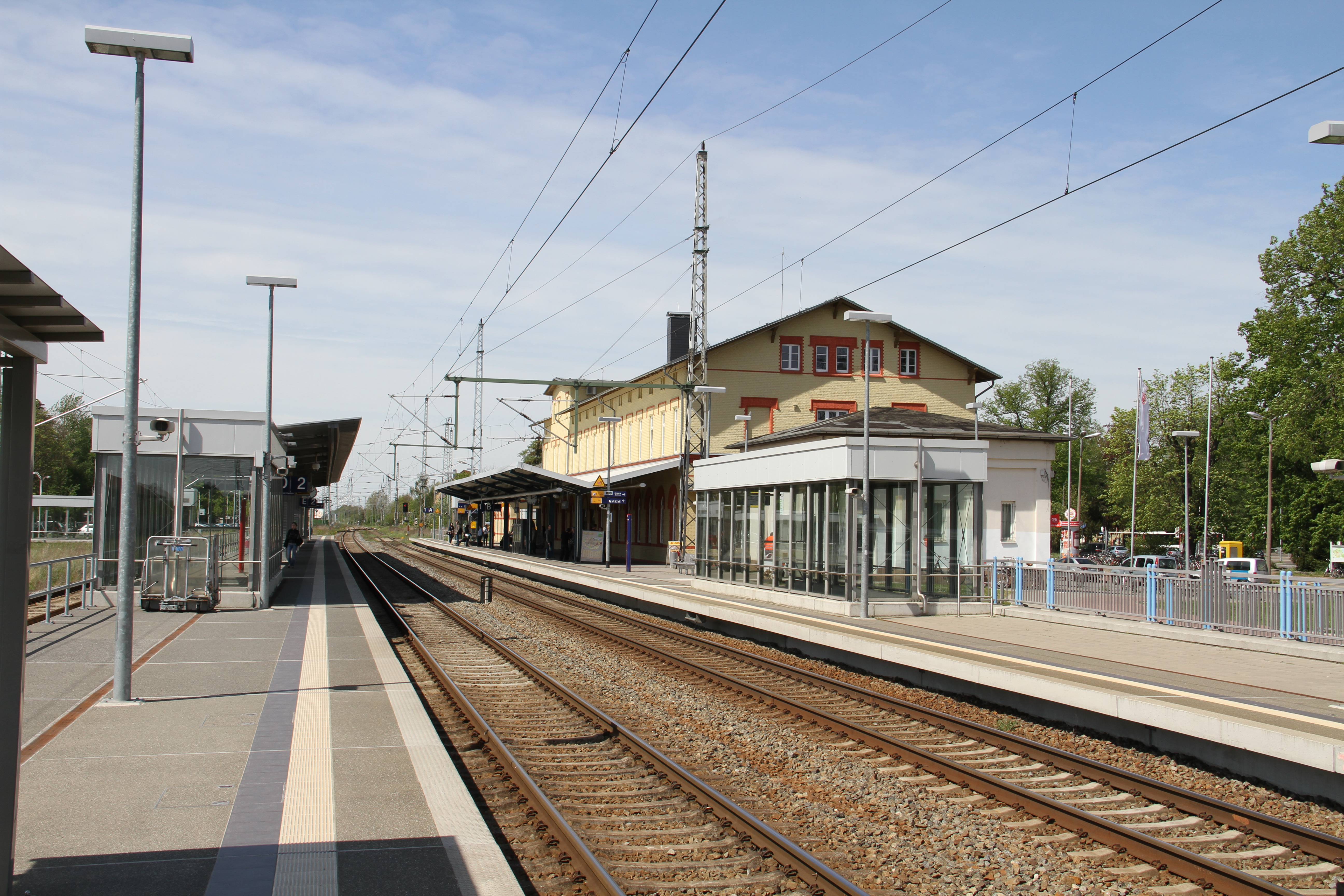 Bahnhof Greifswald (Greifswald main station) in May 2012.